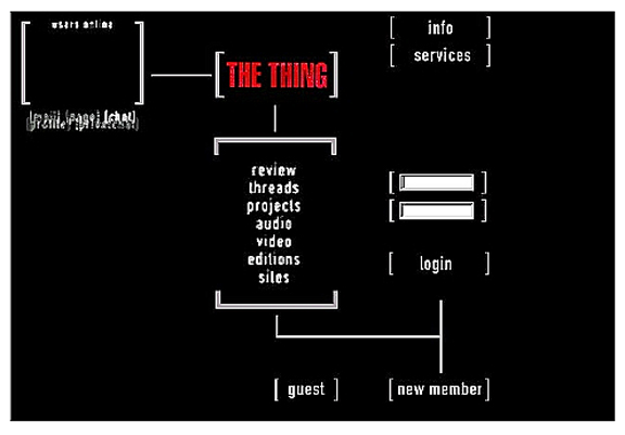 Screen grab of The Thing (Net Art Project)